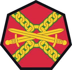 IMCOM Shoulder Patch